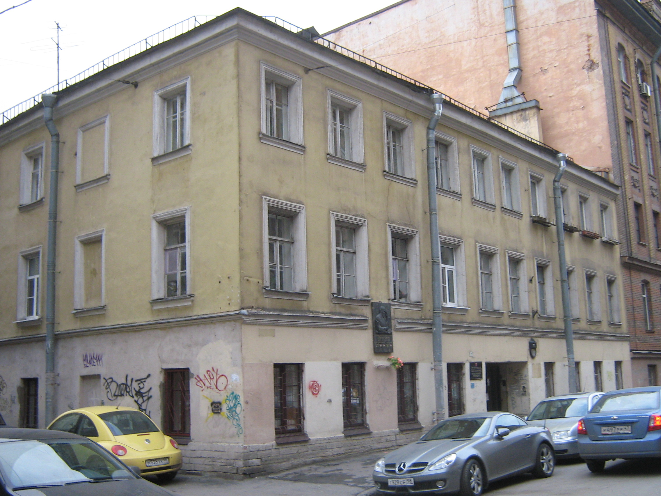 Saint Petersburg (Russia), Tsentralny District